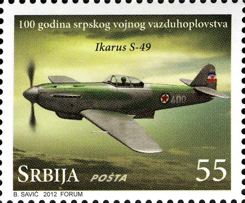 Serbian stamp from 100 Years of Serbian Military Air Force series, issued on 2012-12-24: 55 din, Ikarus S-49.